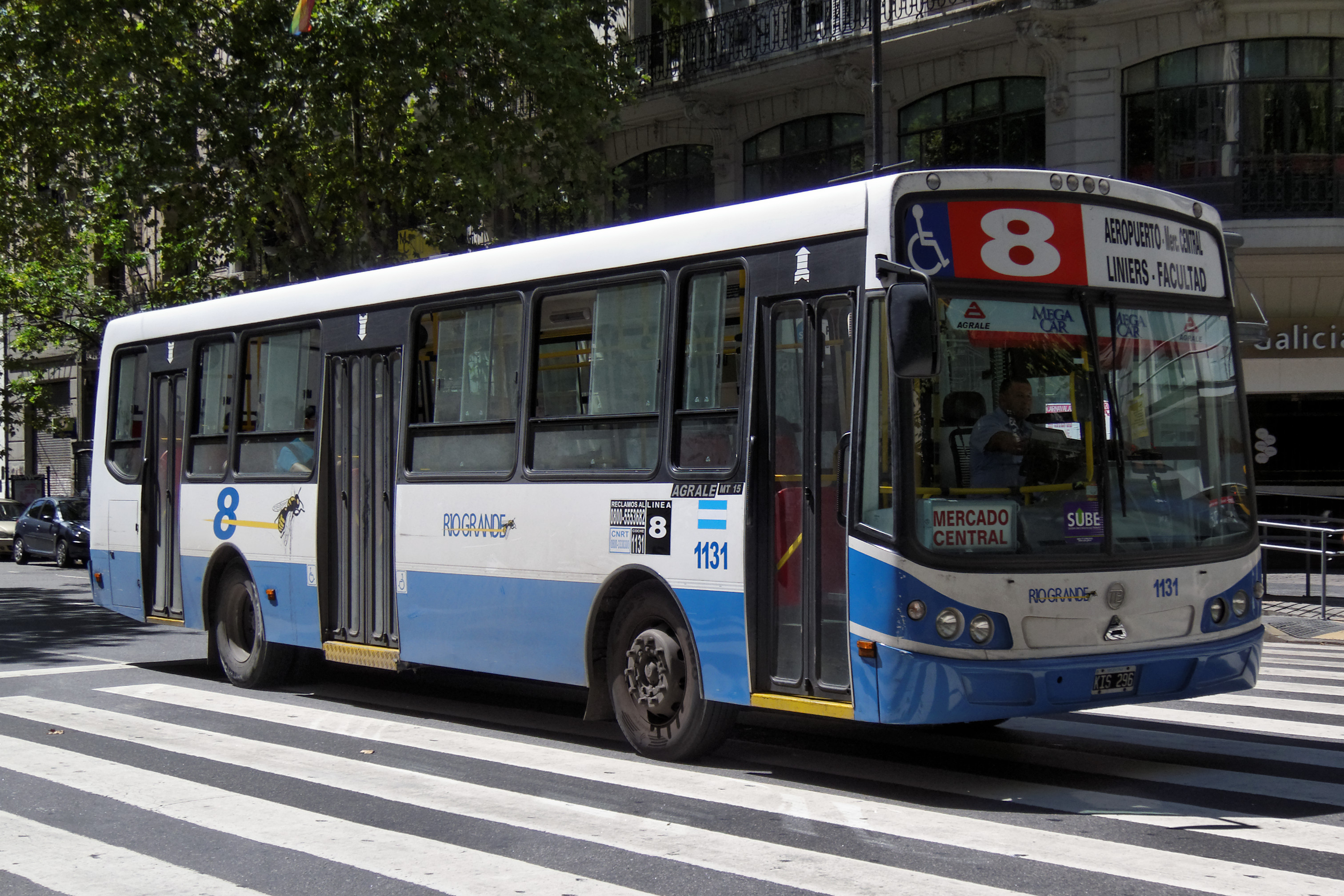 Todo Bus bus (reg. KIS 296, #1131) with Agrale MT 15 chassis in Buenos Aires, Argentina. Colectivo, line 8, Transportes Río Grande S.A. (D.O.T.A.) operator.